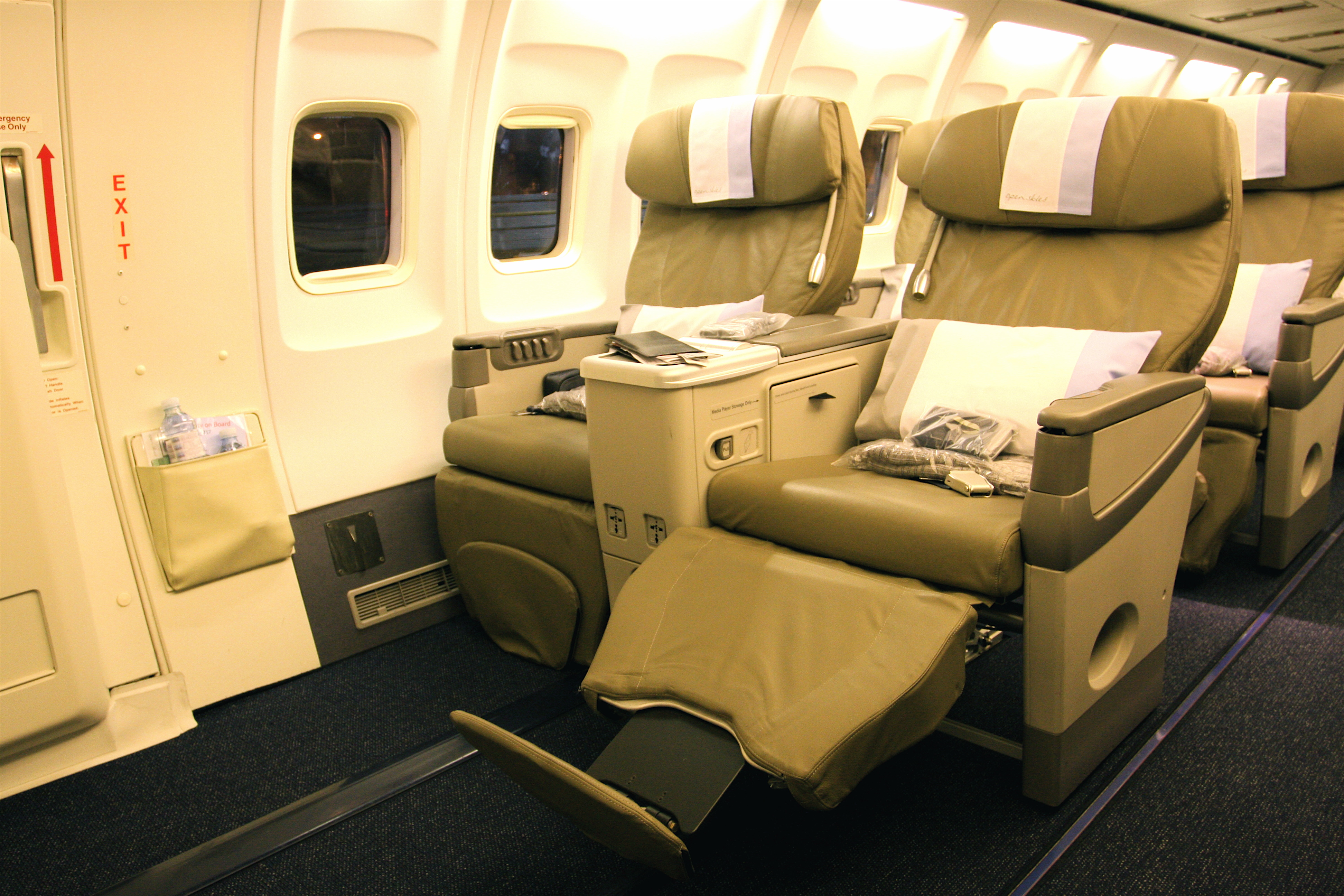 Open Skies' Prem+ is a phenomenal Premium-Economy product. The seat is almost as good as some older-style Business-Class products, with 55 inches of pitch, deep-recline, and in-seat AC/DC power.